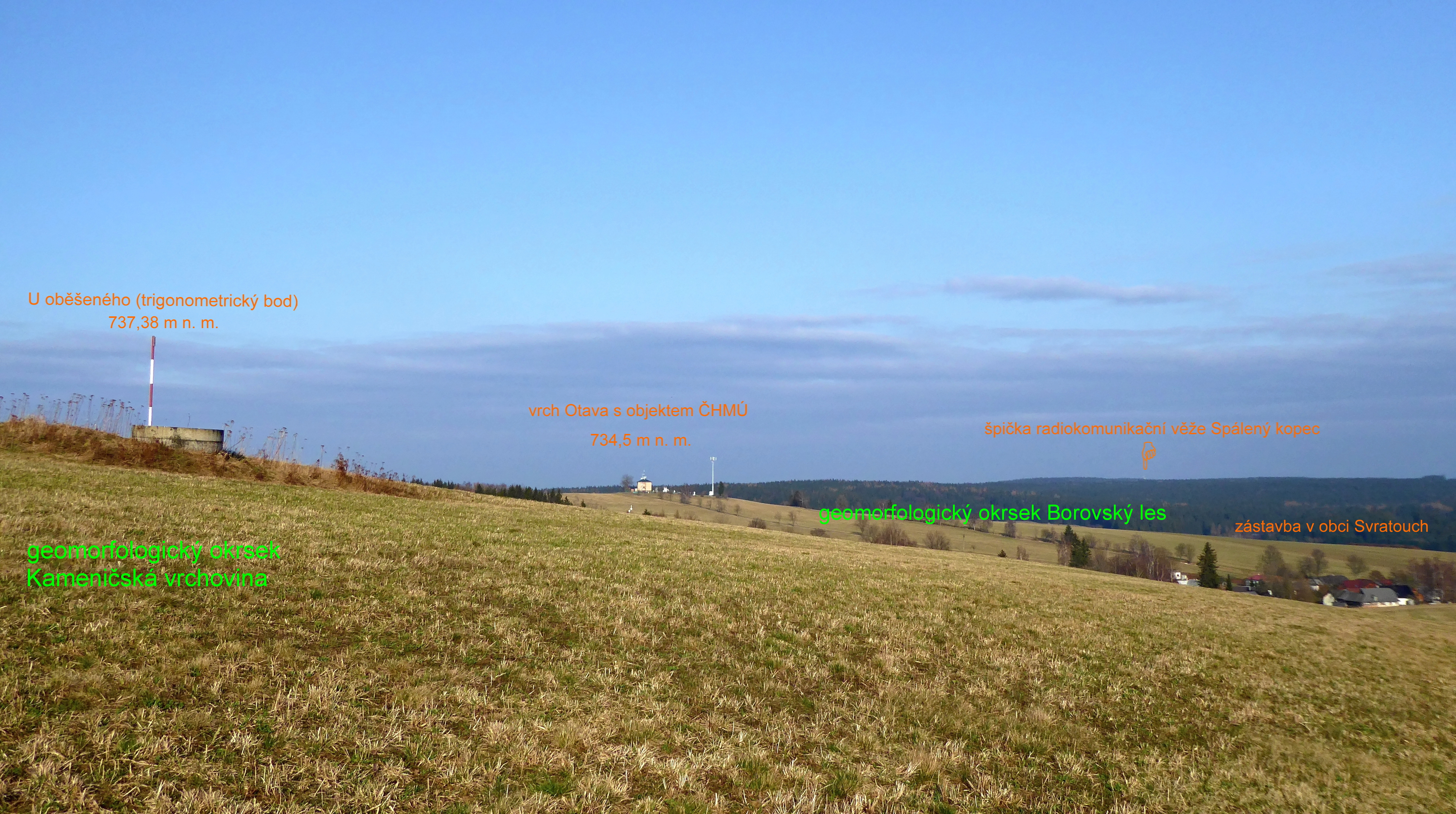 View of the trigonometric point of "U oběšeného" with altitude of 737.38 m and remote hill of Otava (734,5 m asl.) above the village of Svratouch. Above the wooded ridge of the geomorphological district of "Borovský" forest is the upper part of the radiocommunication tower, lies at the top of the hill (765,5 asl.), with czech name: Spálený kopec. Geographical name in czech written form "U oběšeného" is the standard name of the geographic object of hill type. The highest peak of the Iron Mountains lies in the south-eastern part of the mountain range with name "Sečská" Highlands, in the geomorphological district "Kameničská" Highlands. In the photo is orientative the czech labels of the height points (orange). Photo-location: Czechia, Pardubice Region, the village of "Svratouch", southern slope of the peak of "U oběšeného". Sources of information: Nature Conservation Agency of the Czech Republic – website, see State Administration of Land Surveying and Cadastre – website, see